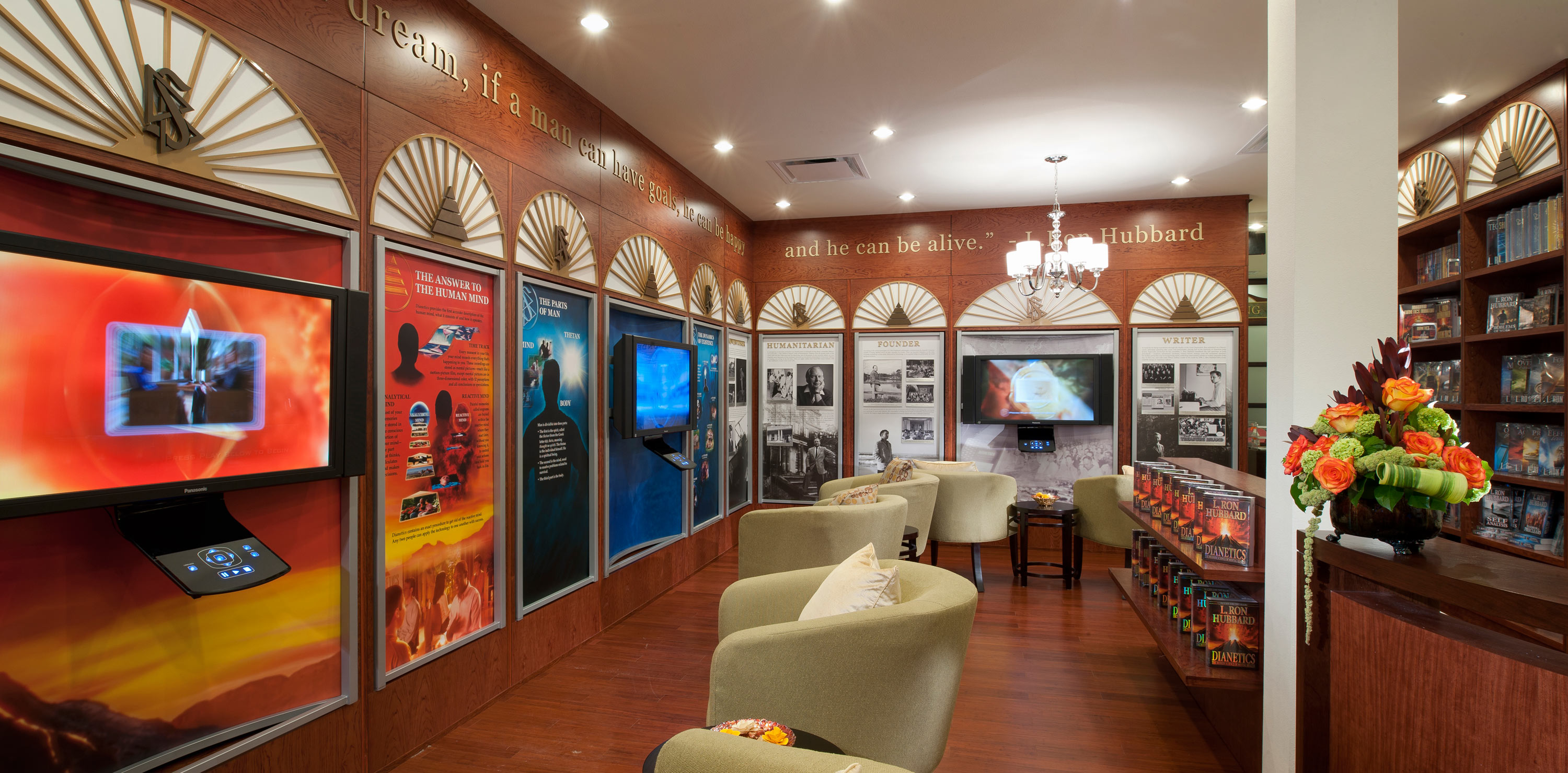 The Church of Scientology Mission of Ocala presents an exhibition dedicated to the life and legacy of Dianetics and Scientology Founder L. Ron Hubbard.